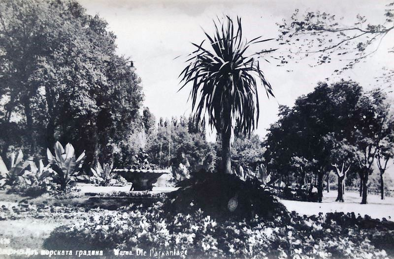 Varna. Photos of the Sea Garden.